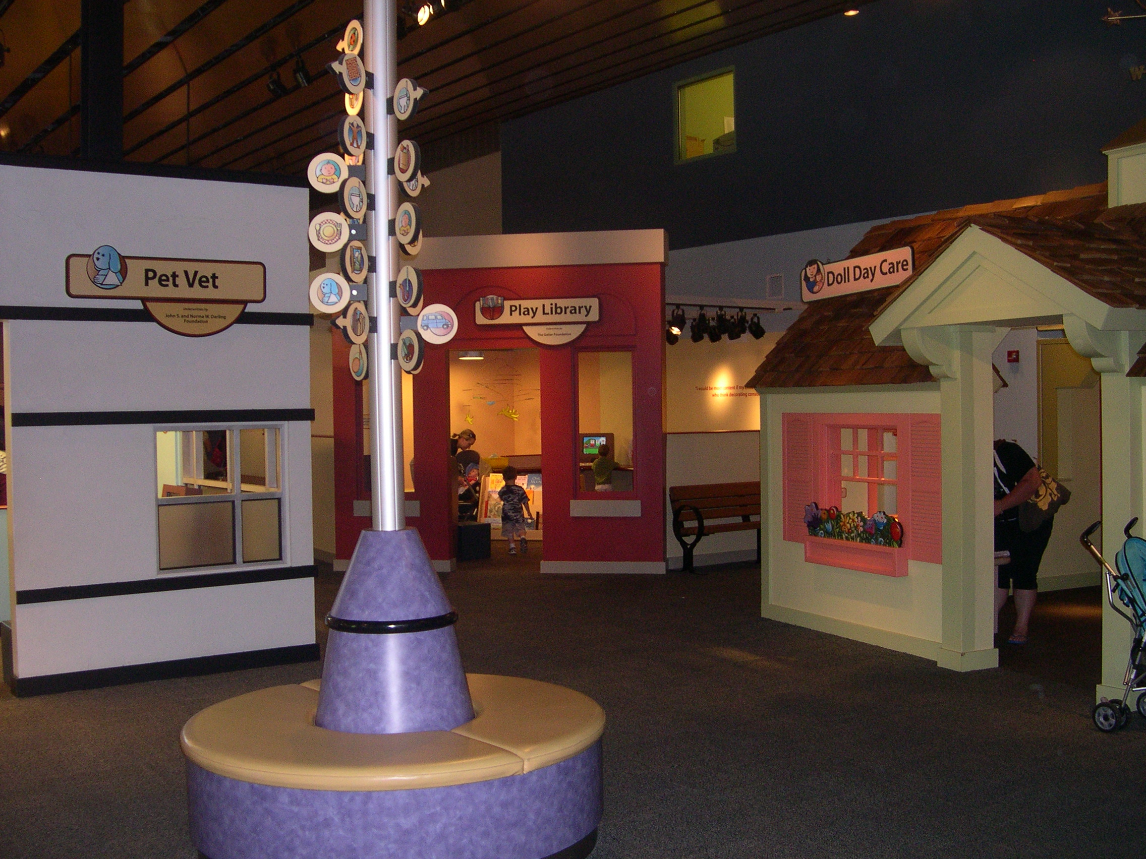 A coridor at Kohl museum